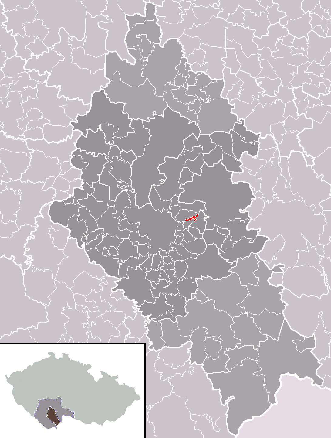 Location of Adamov municipality within České Budějovice District and administrative area of České Budějovice as a Municipality with Extended Competence.